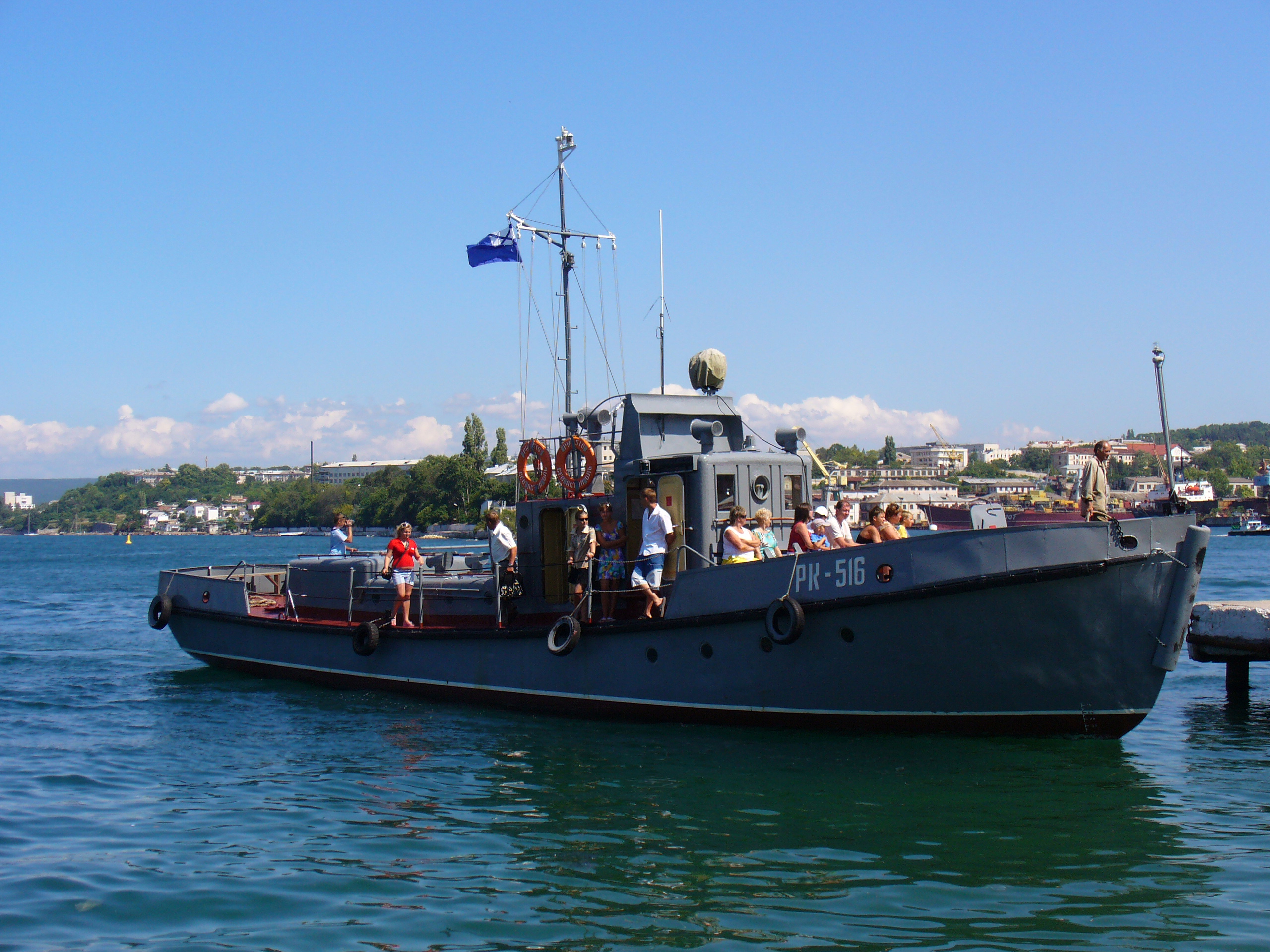 "RK-516" boat. This photo is made in the Southern bay of Sevastopol.